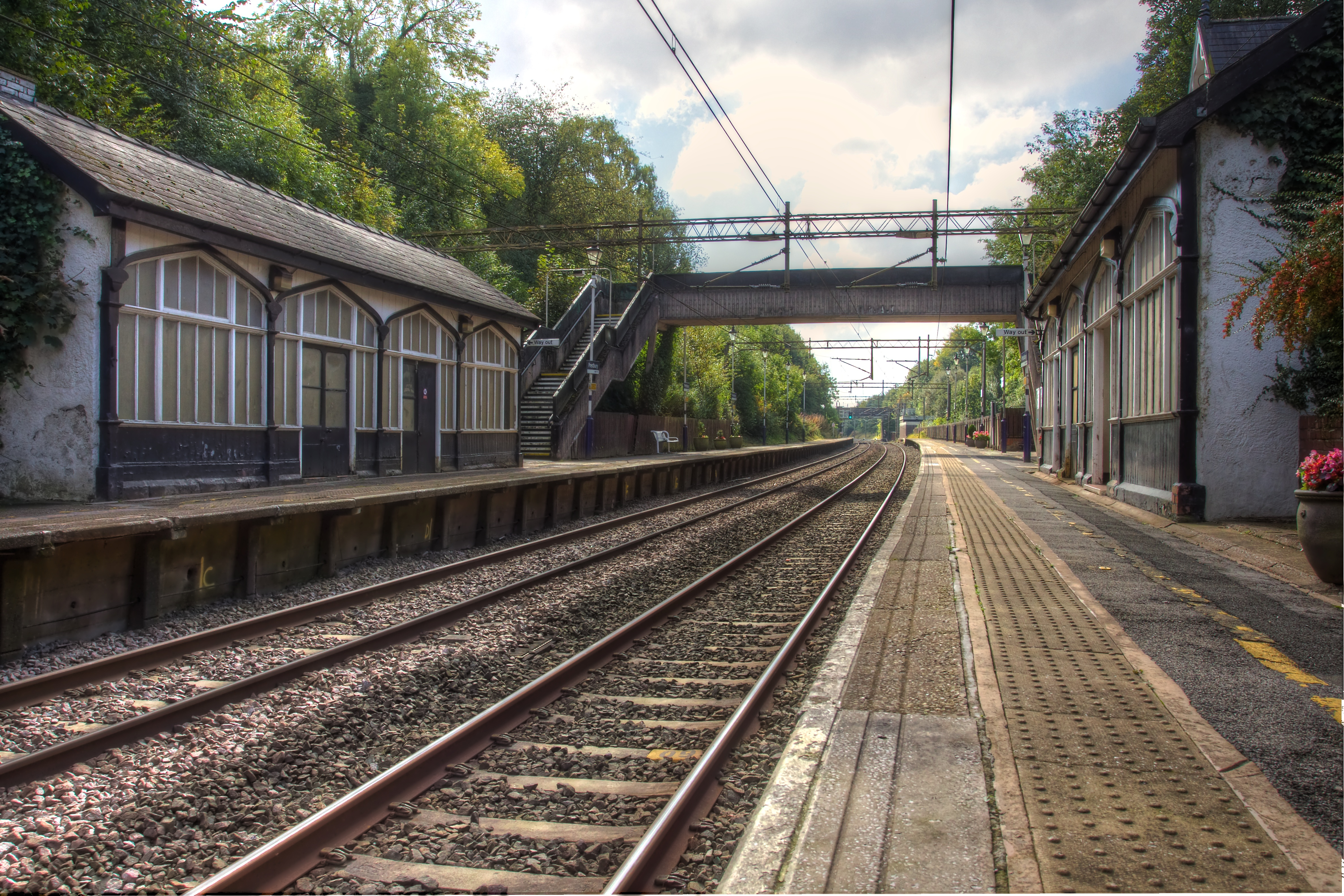 Photograph taken inside Prestbury railway station in Cheshire UK, September 2011